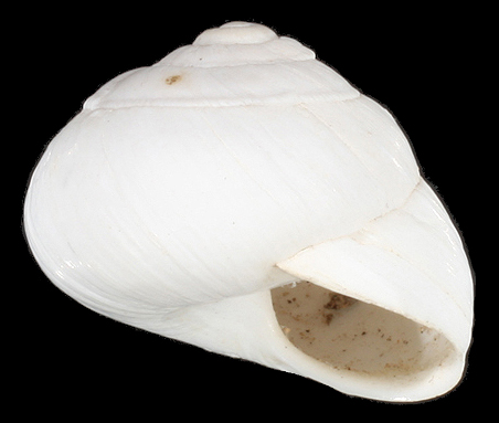 Photo of shell of Sphincterochila baetica. Locality: Spain: Costa Blanca, La Fustera. Date: December 1970.